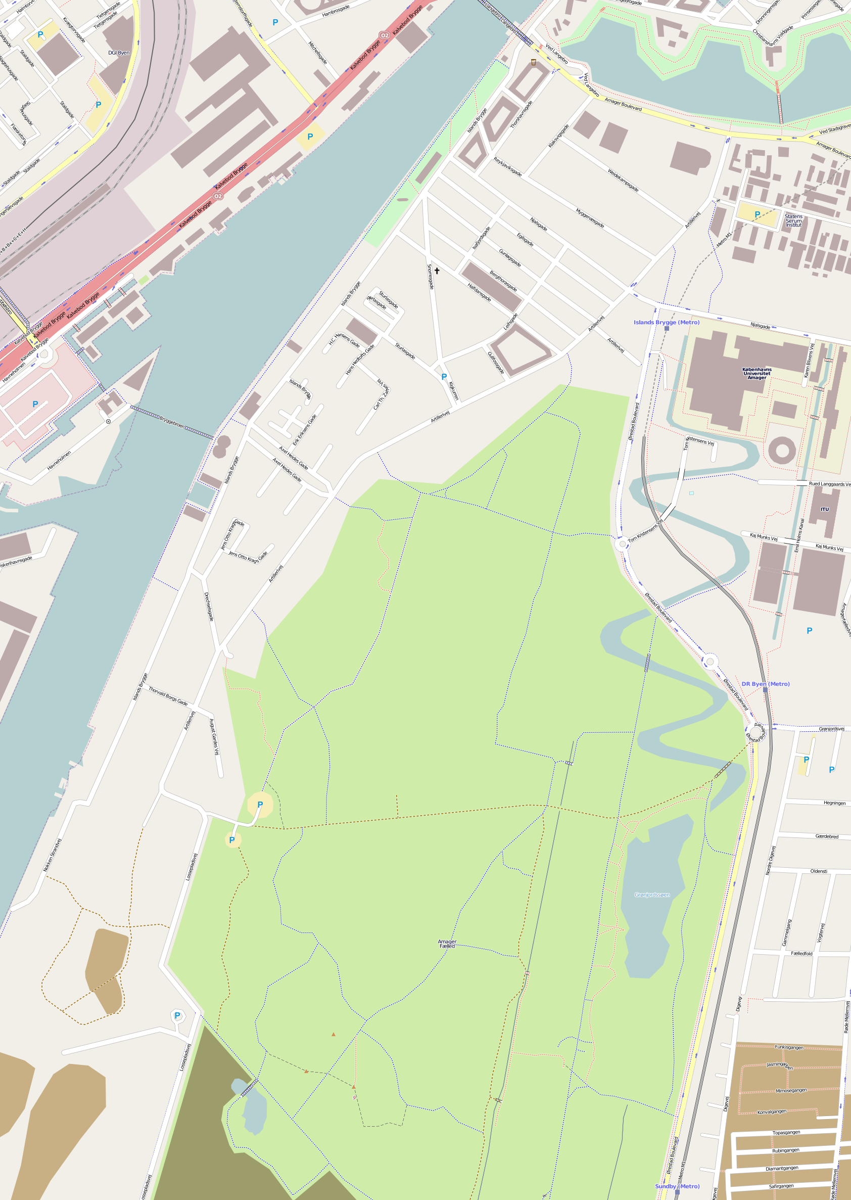 Map of Islands Brygge and surrounding area